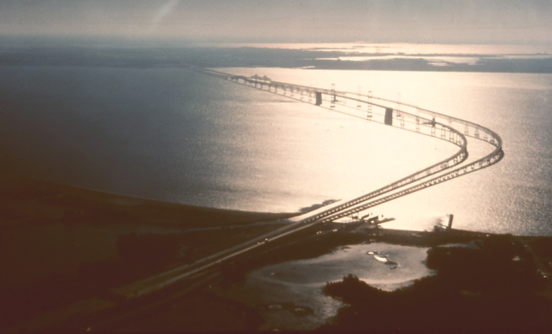 Chesapeake Bay Bridges from Sandy Point (Countries-US-States-Maryland)